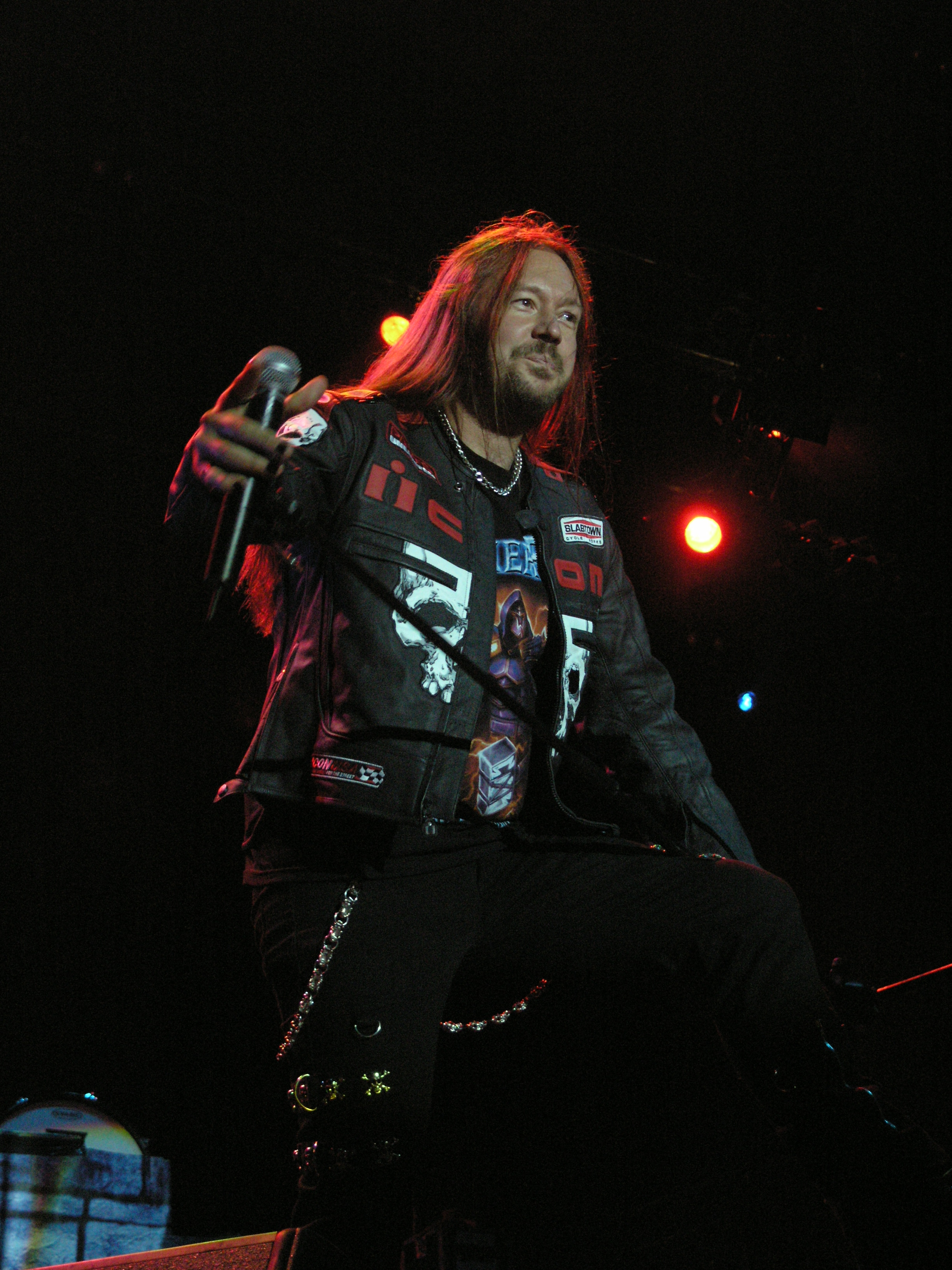 Joacim Cans from Hammerfall during Masters of Rock 2007 festival